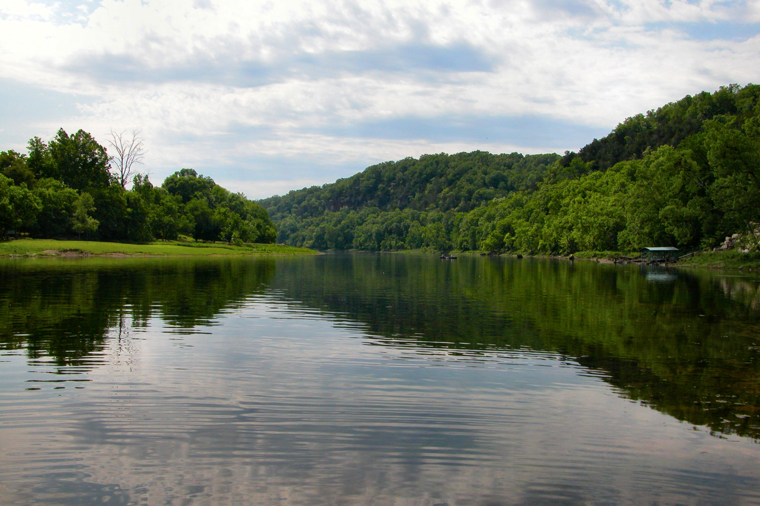 Picture of White River near Flippin, AR, by James Powers